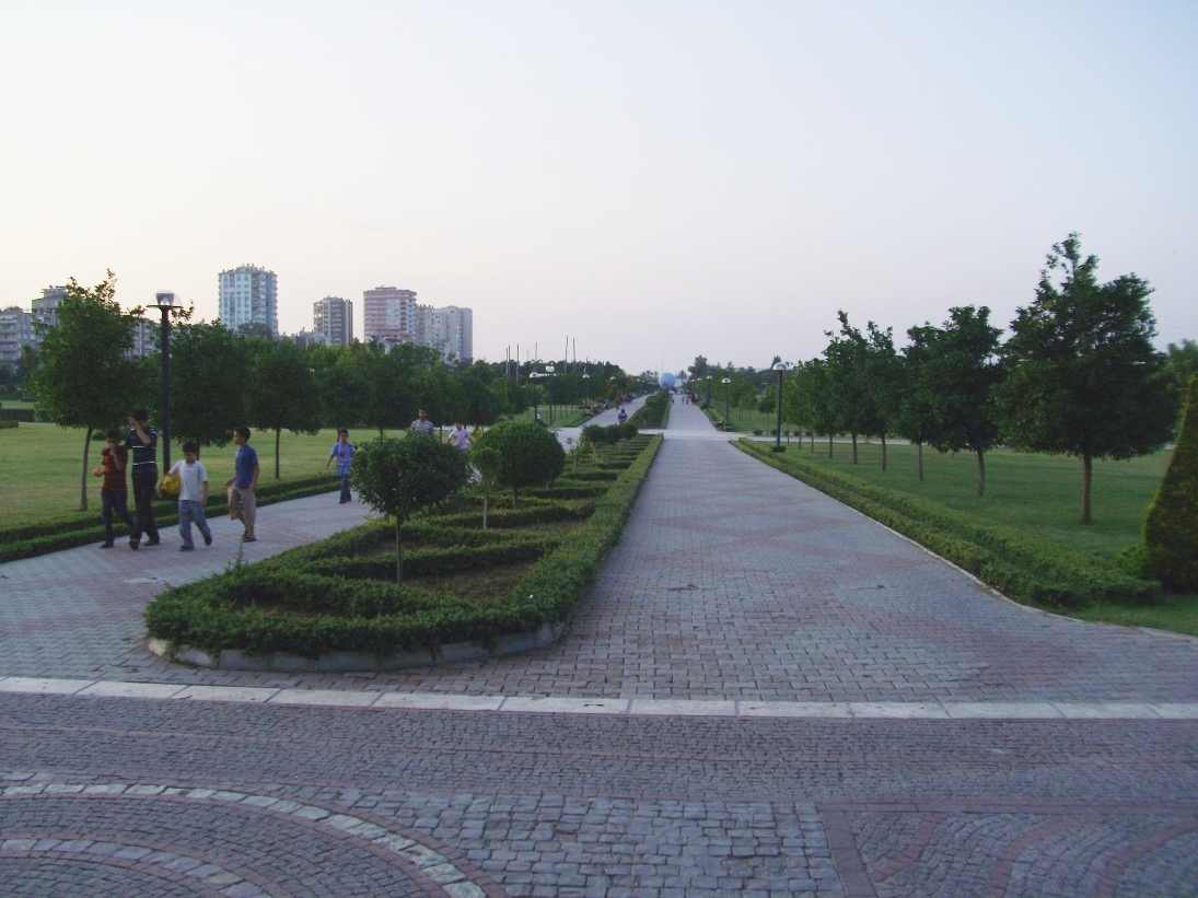 Merkez Park Walkway